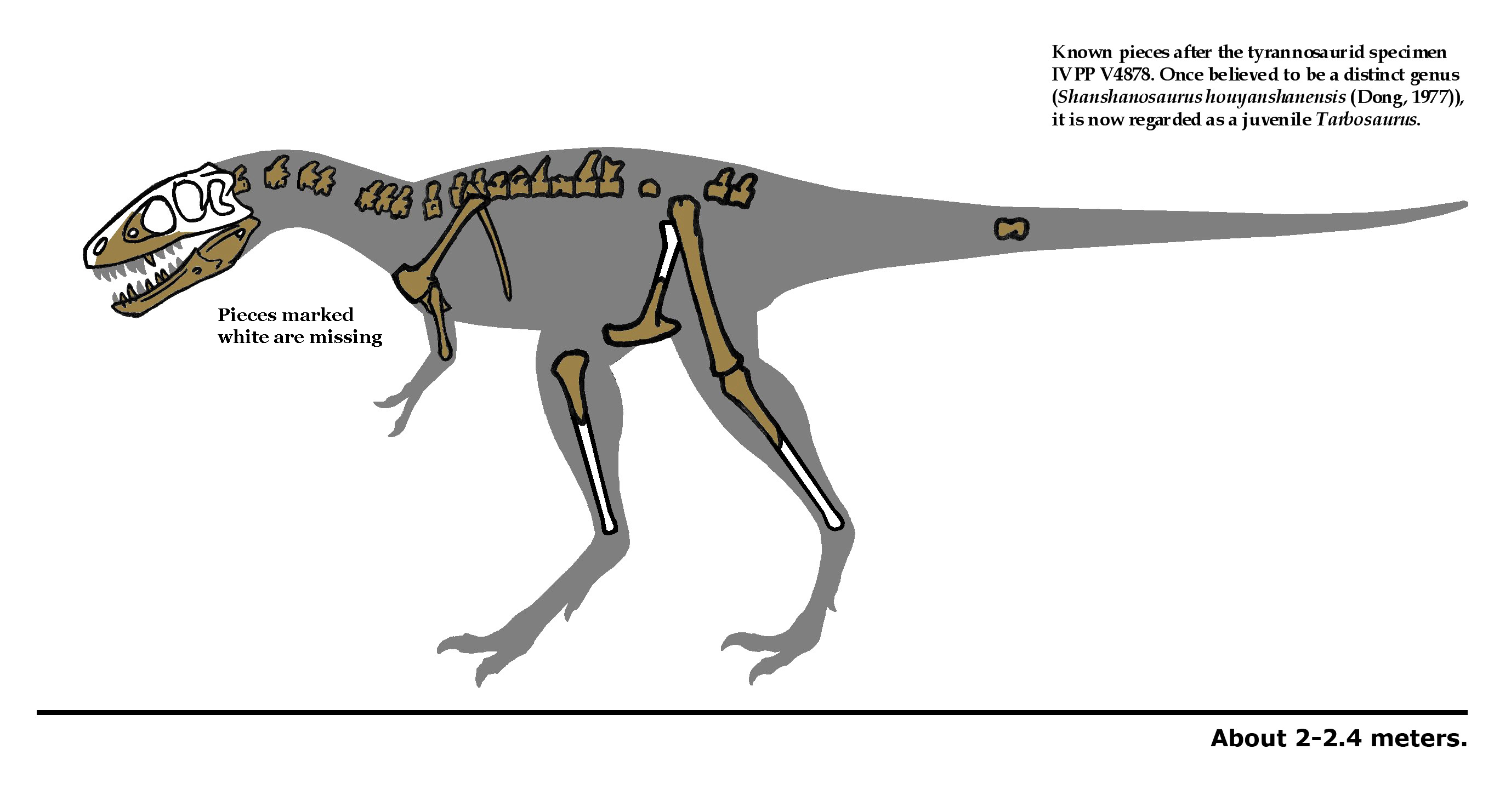 Skeletal pieces from the fossil Tyrannosaurid dinosaur specimen IVPP V4878, described by Dong in 1977 as Shanshanosaurus houyanshanensis. It is now considered to be a juvenile Tarbosaurus. References. image: Skeletal diagram. Image: Skeletal diagram. Image: Drawing of some known fragments from the skull. Image:Comparison between skull fragments from a juvenile Tarbosaurus (A. and B.), IVPP V4878 (C.) and a Raptorex (D.). The scale is 5 cm. Textmaterial: Text about a comparison of the skulls from "Shanshanosaurus" and Raptorex.